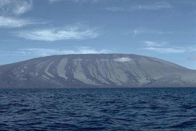 Wolf volcano on Isabela Island, Galápagos Islands, Ecuador